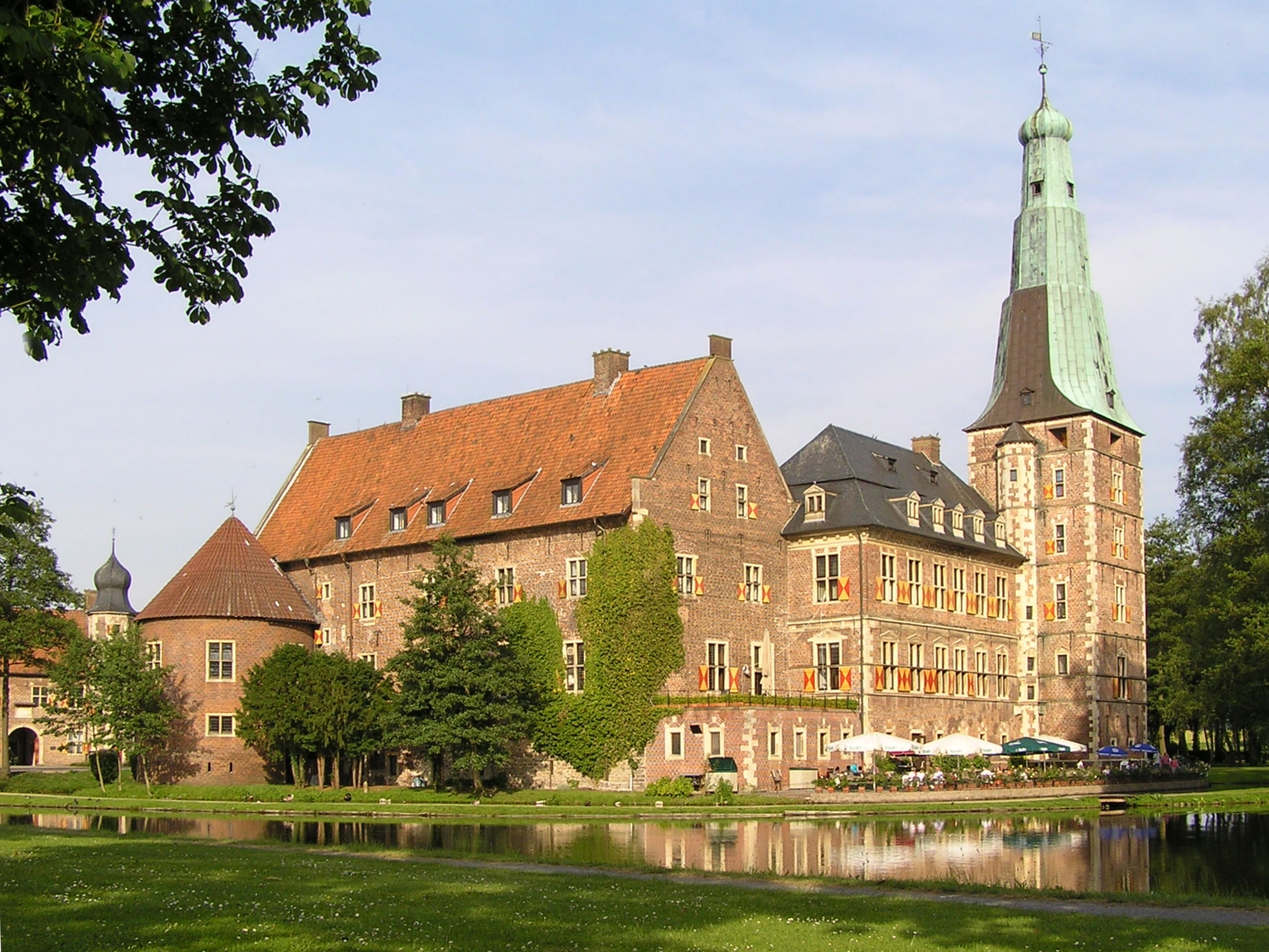 Castle Raesfeld (main castle from west)